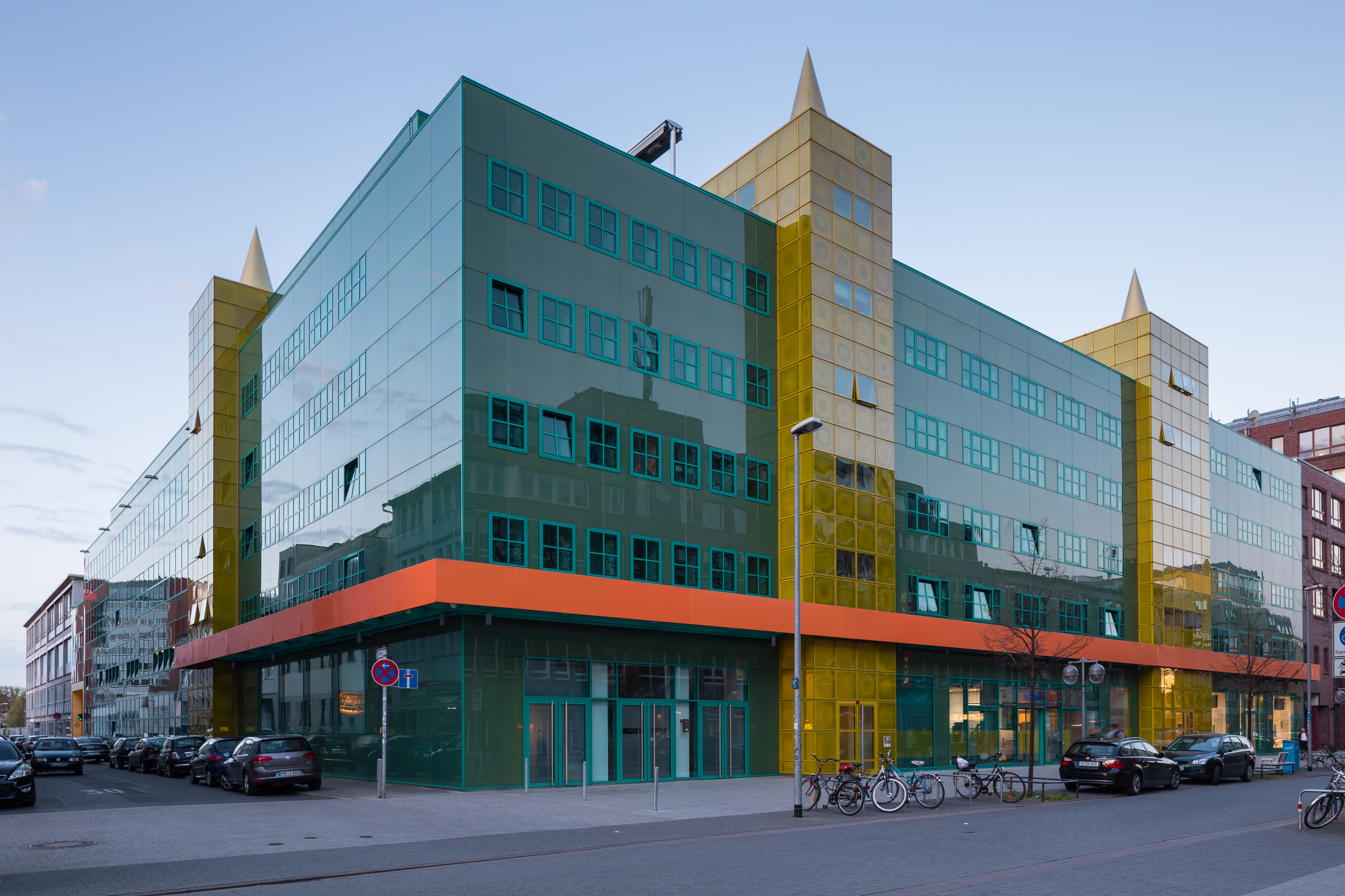 Office building Mendini-Haus located at Lange Laube in Mitte quarter of Hannover, Germany.